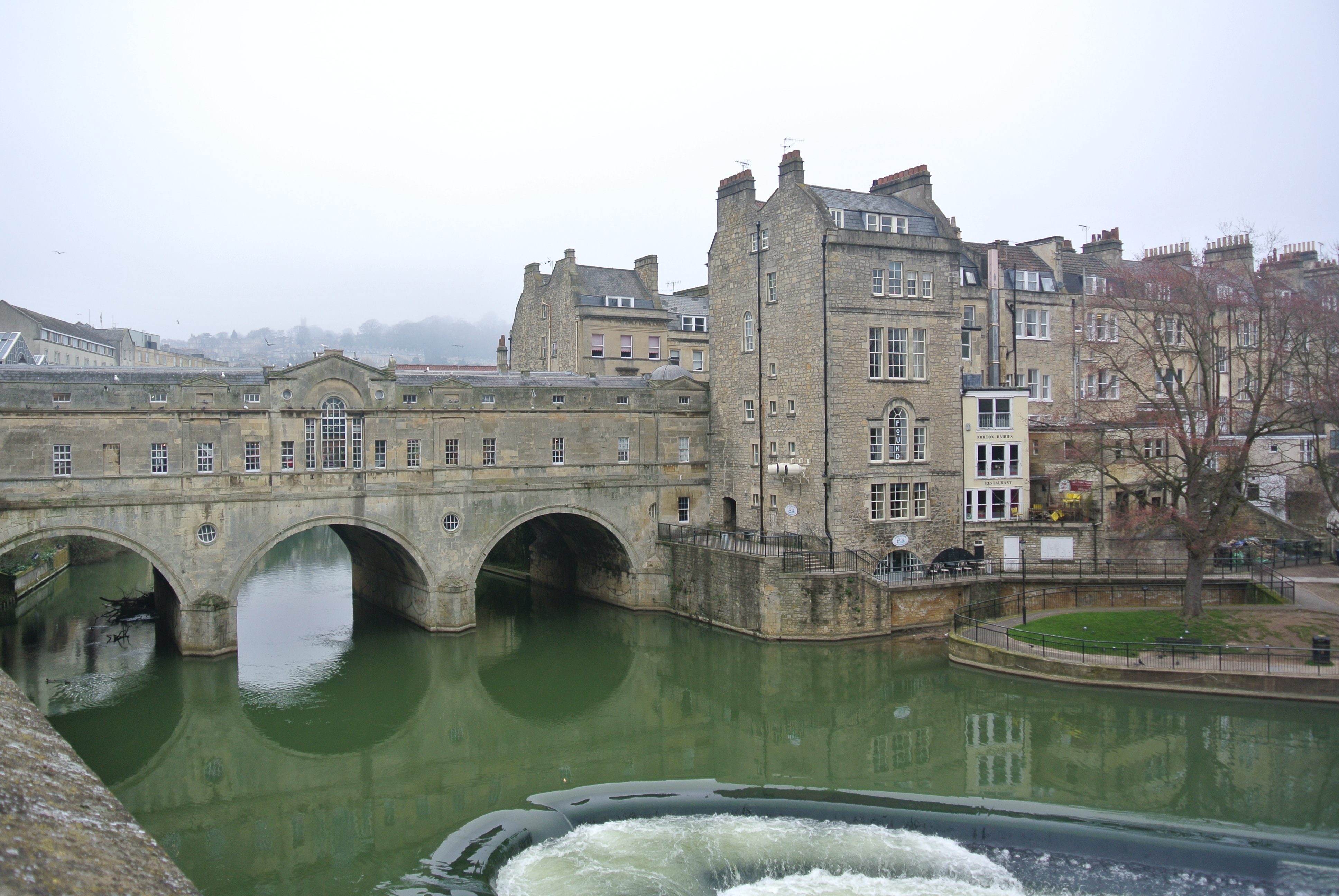 Pulteney Bridge